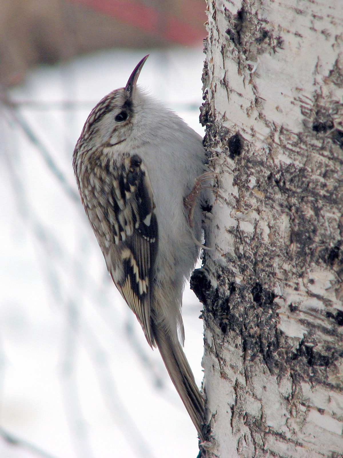 Eurasian Treecreeper (Certhia familiaris) on trunk of a birch (Betula pendula f. tristis). Photo taken in Ikaalinen, Finland.